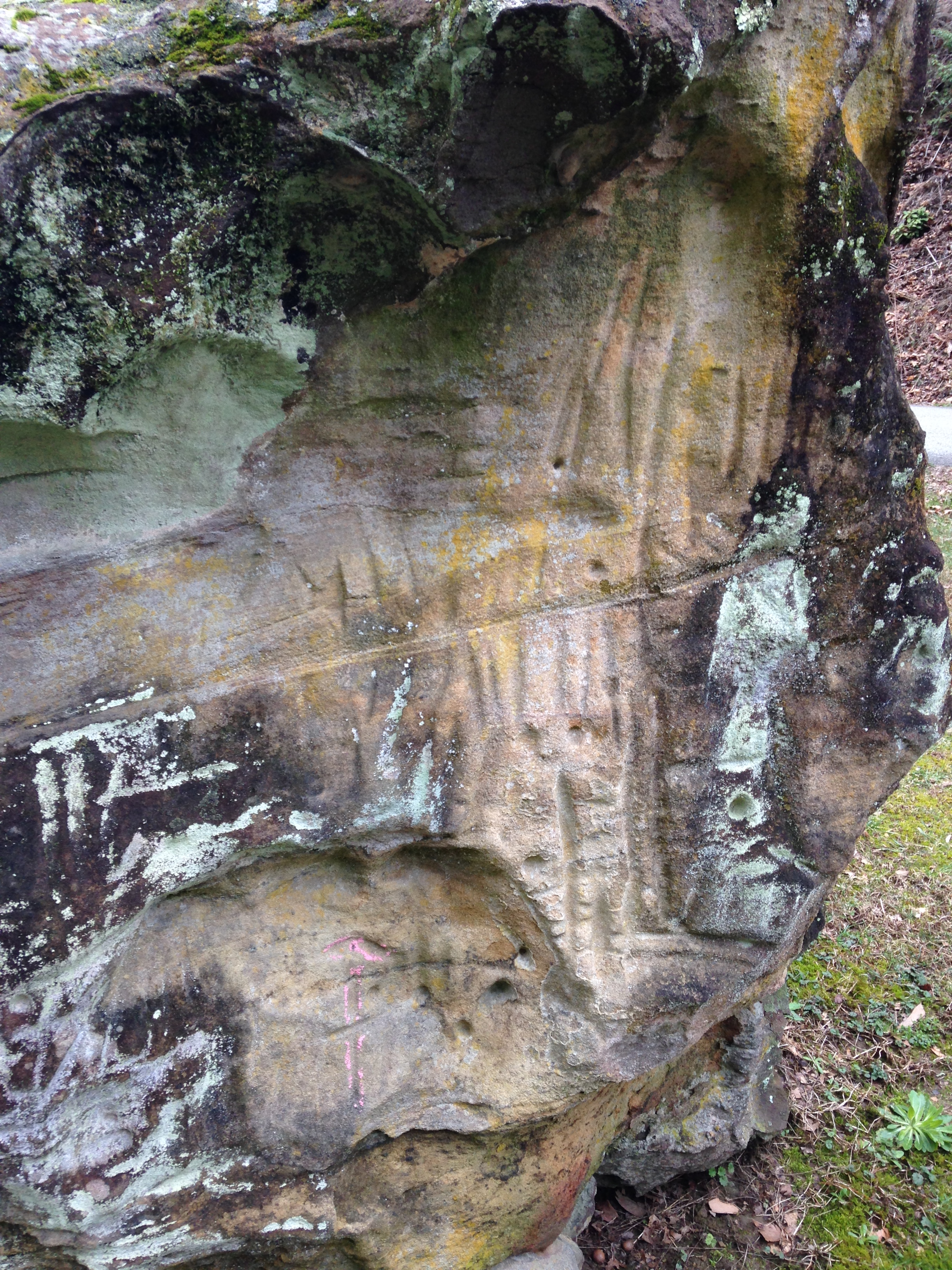 Close up view of the Dingess Petroglyphs.